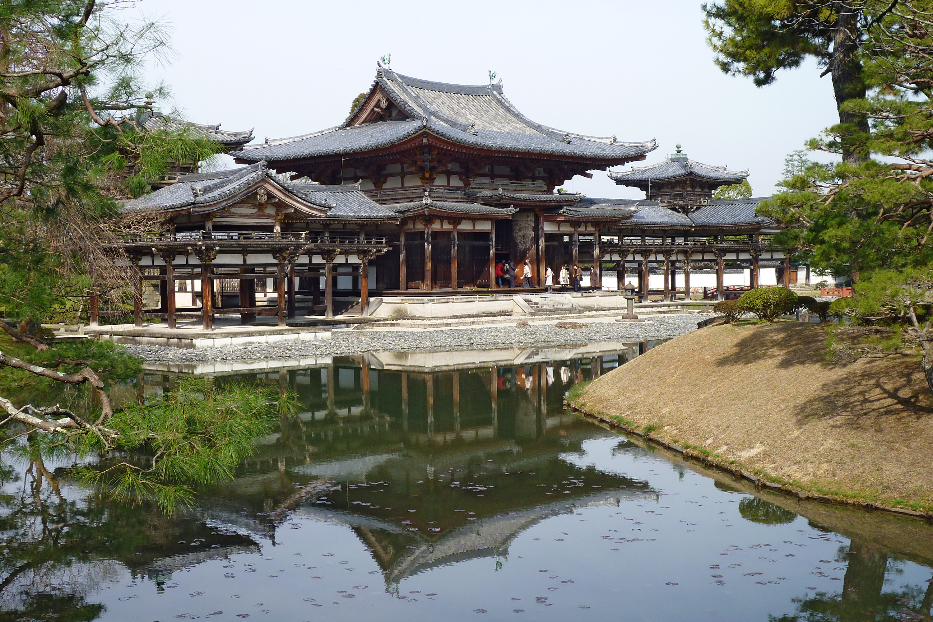 Byōdō-in Phoenix Hall, Uji, Kyoto prefecture, Japan, 1059.